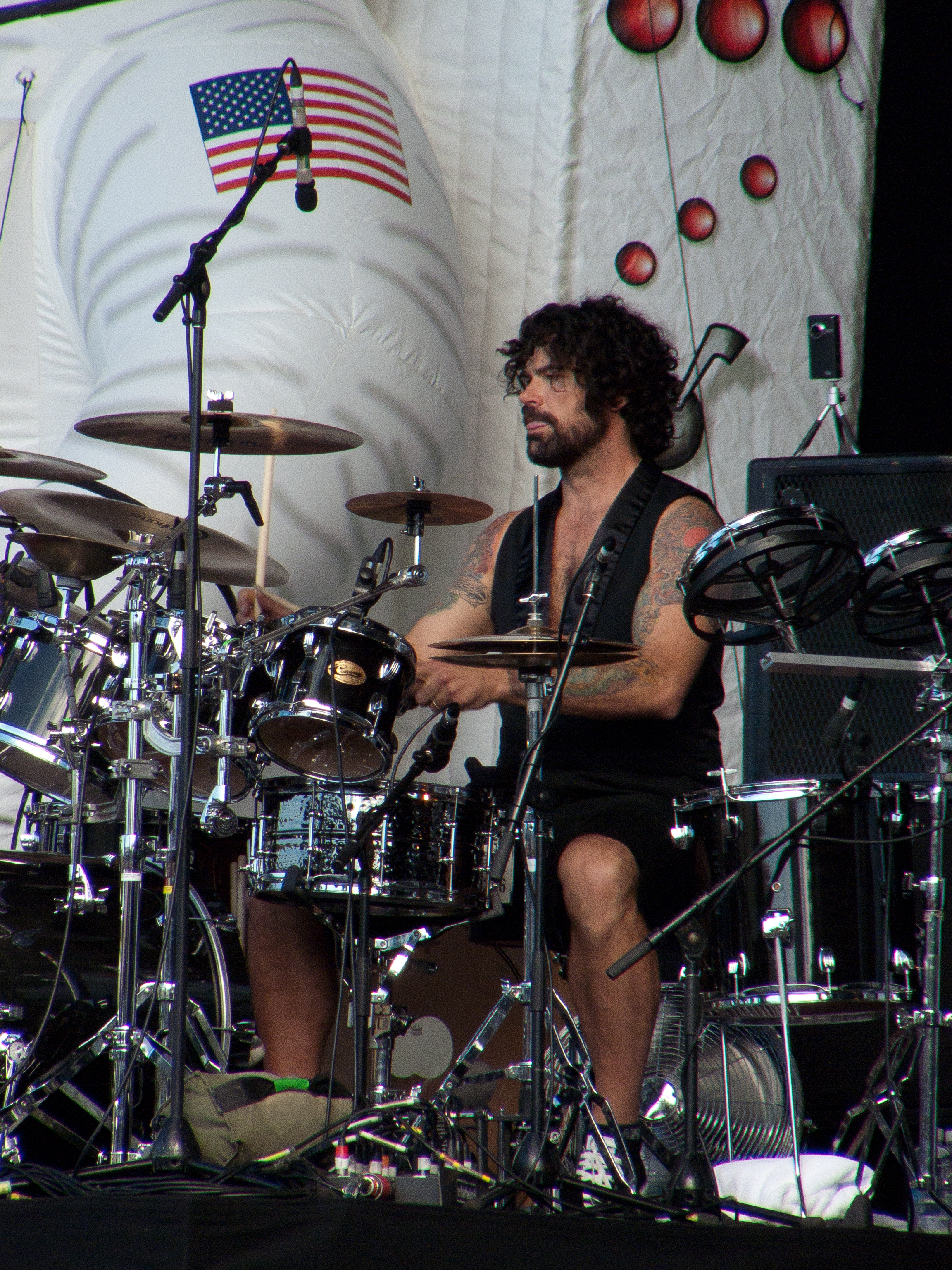 Jay Lane performing with Primus at the 2011 Soundwave festival in Brisbane, Australia.